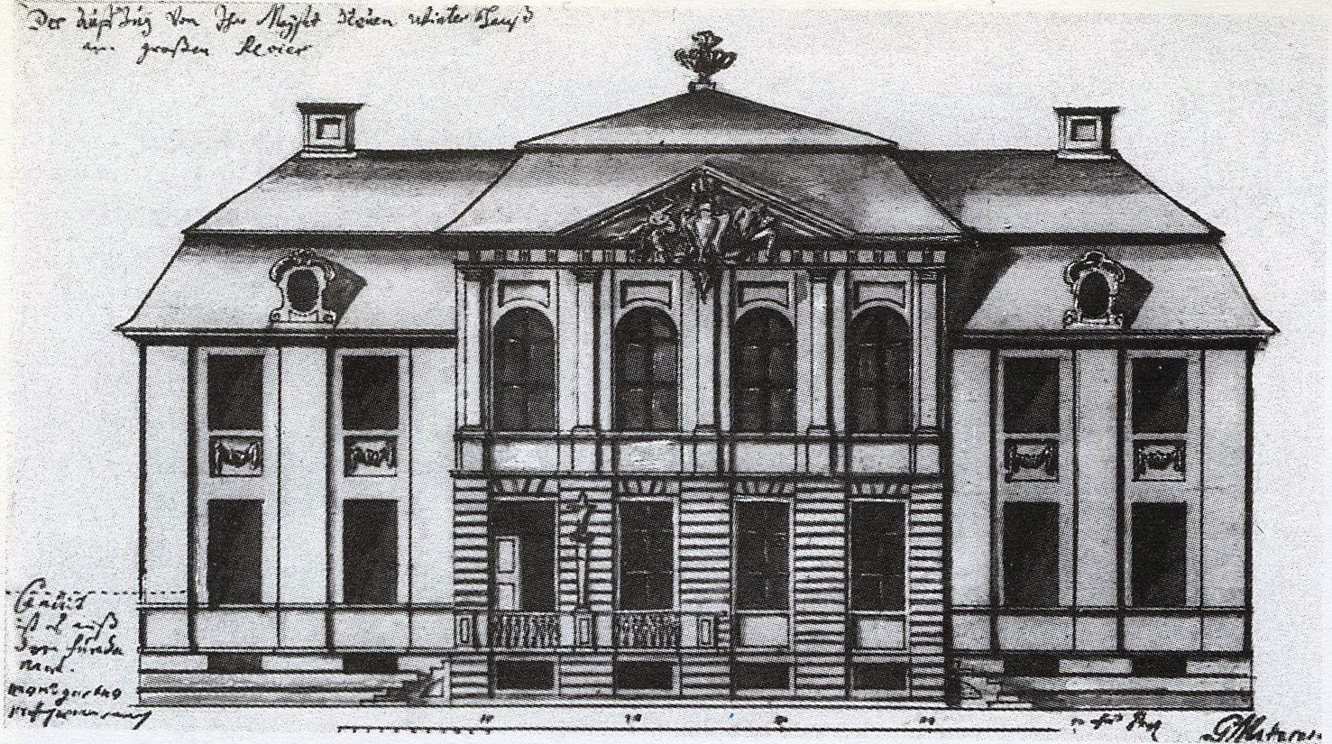 G. Mattarnovi. Disign of Peter I's Winter House in 1716